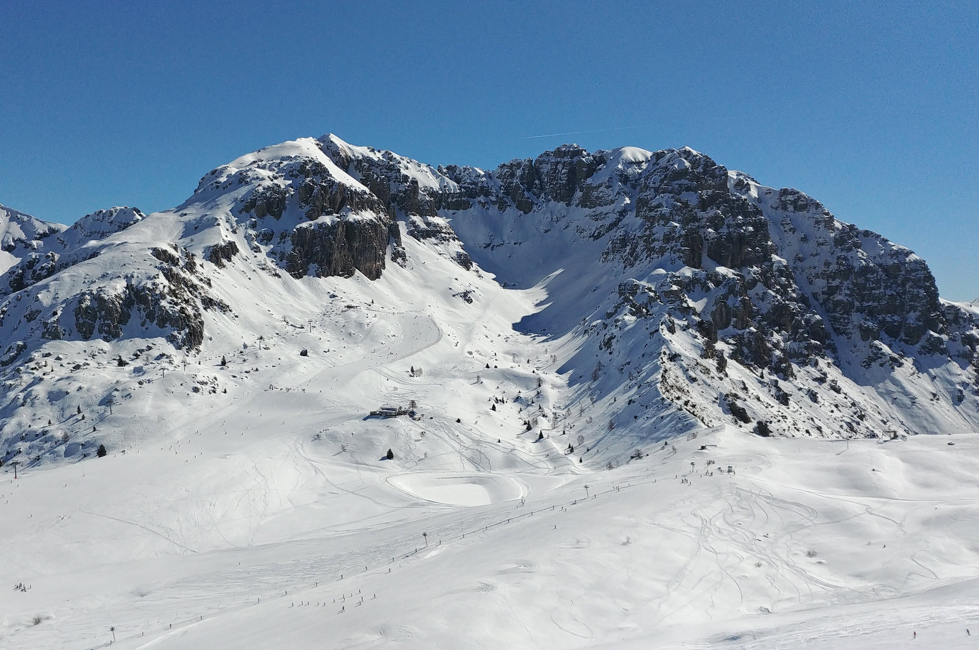 Campelli mountain group and Lecco mountain hut seen from Piani di Bobbio